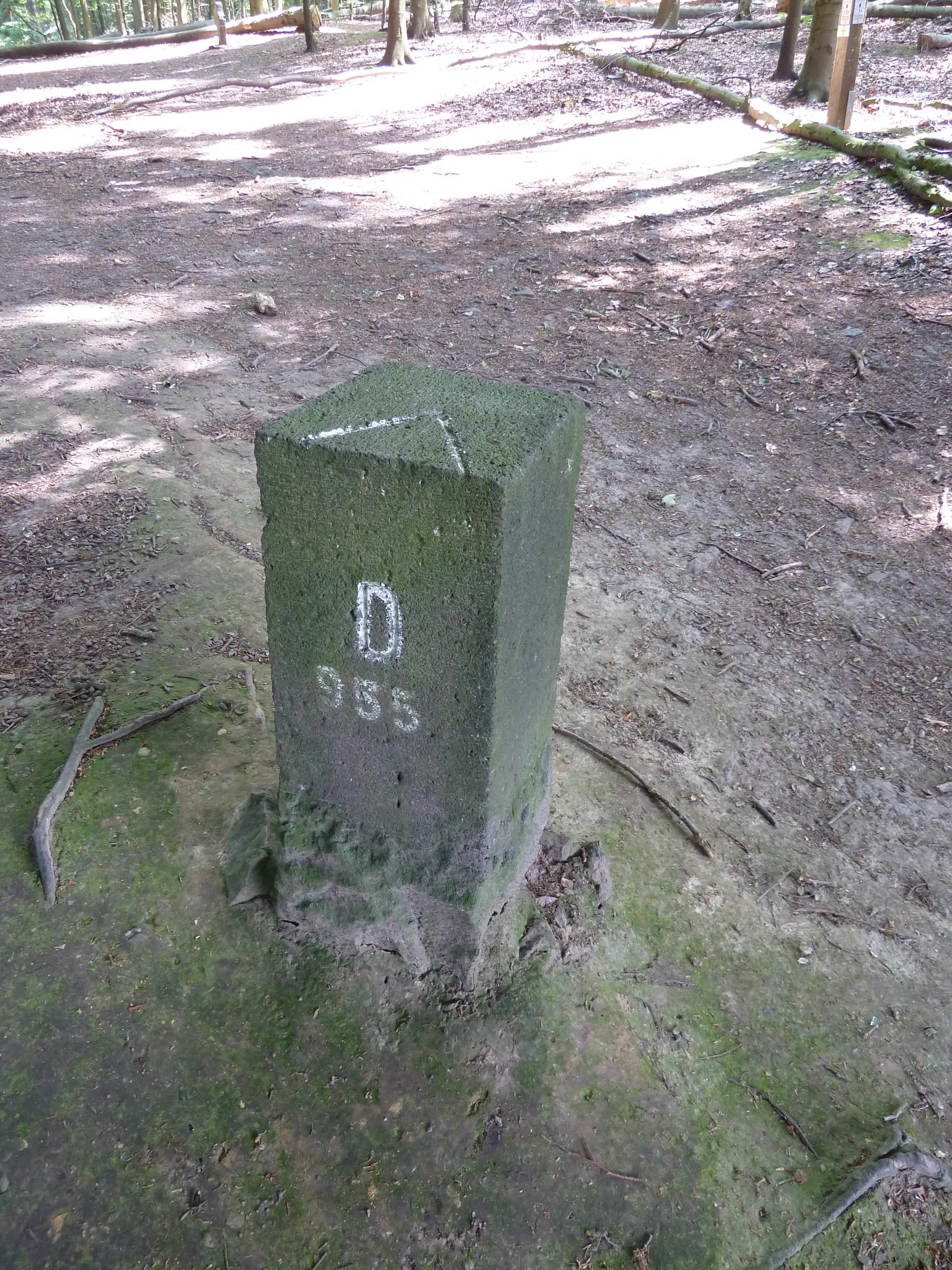 Boundary stone near the Zyklopensteine